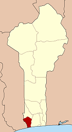 Map of Benin highlighting the department Mono